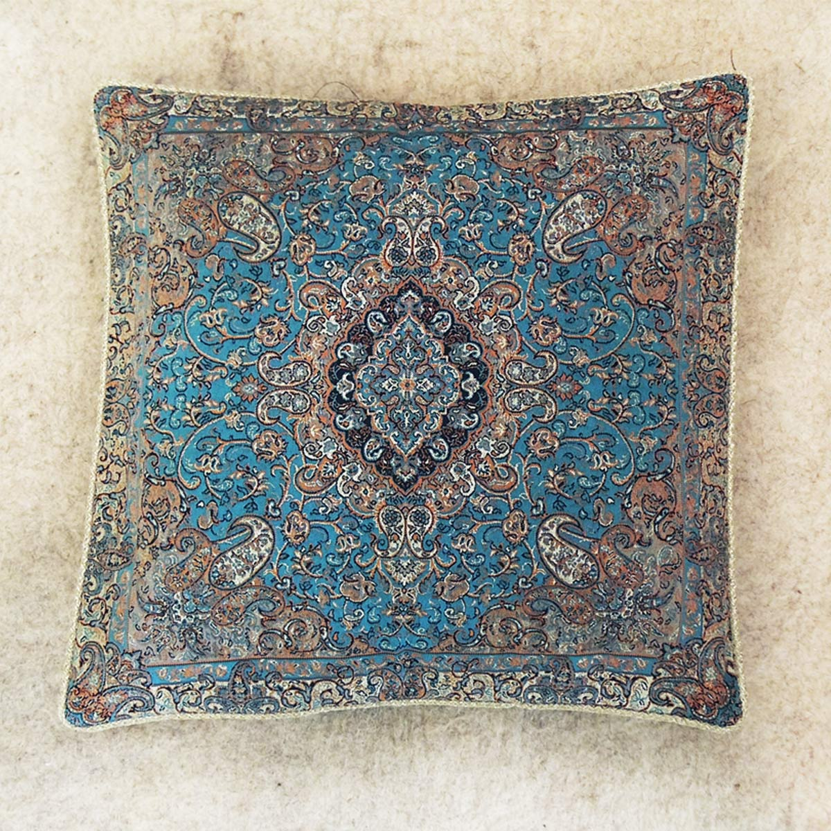 A Persian Termeh pillow cover.